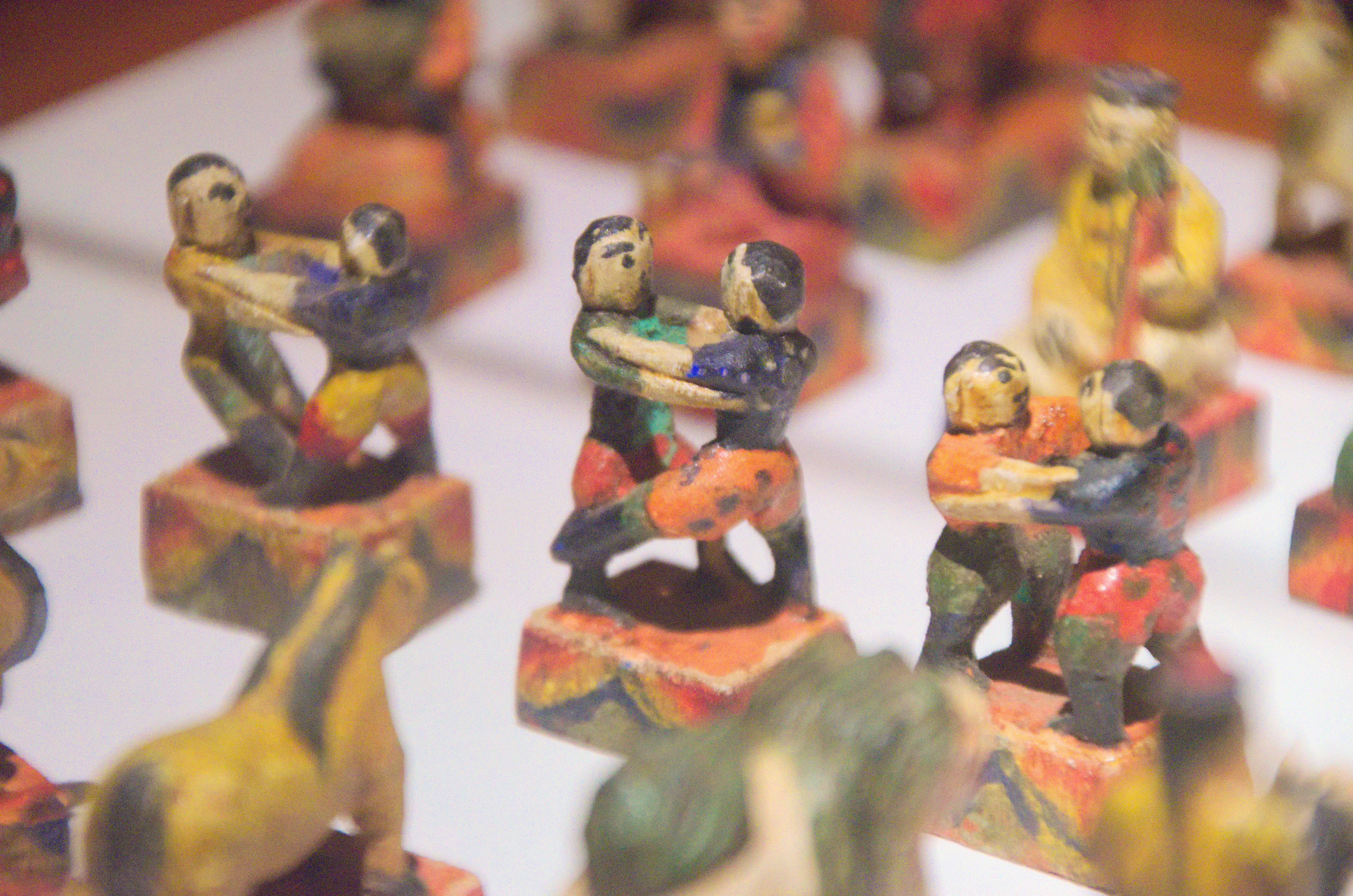 Mongolian wrestlers in a mongolian chess at Nationalmuseet, Copenhagen, Danemark.